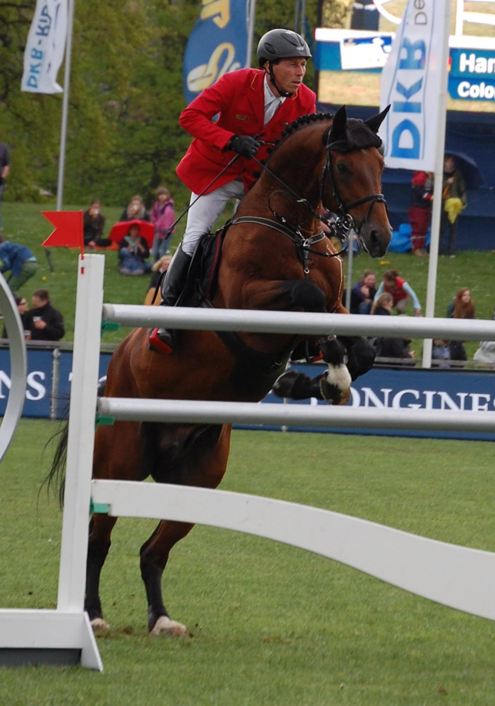 German rider Hans-Dieter Dreher with Colore, "Championat von Hamburg", CSI 5* Hamburg 2013